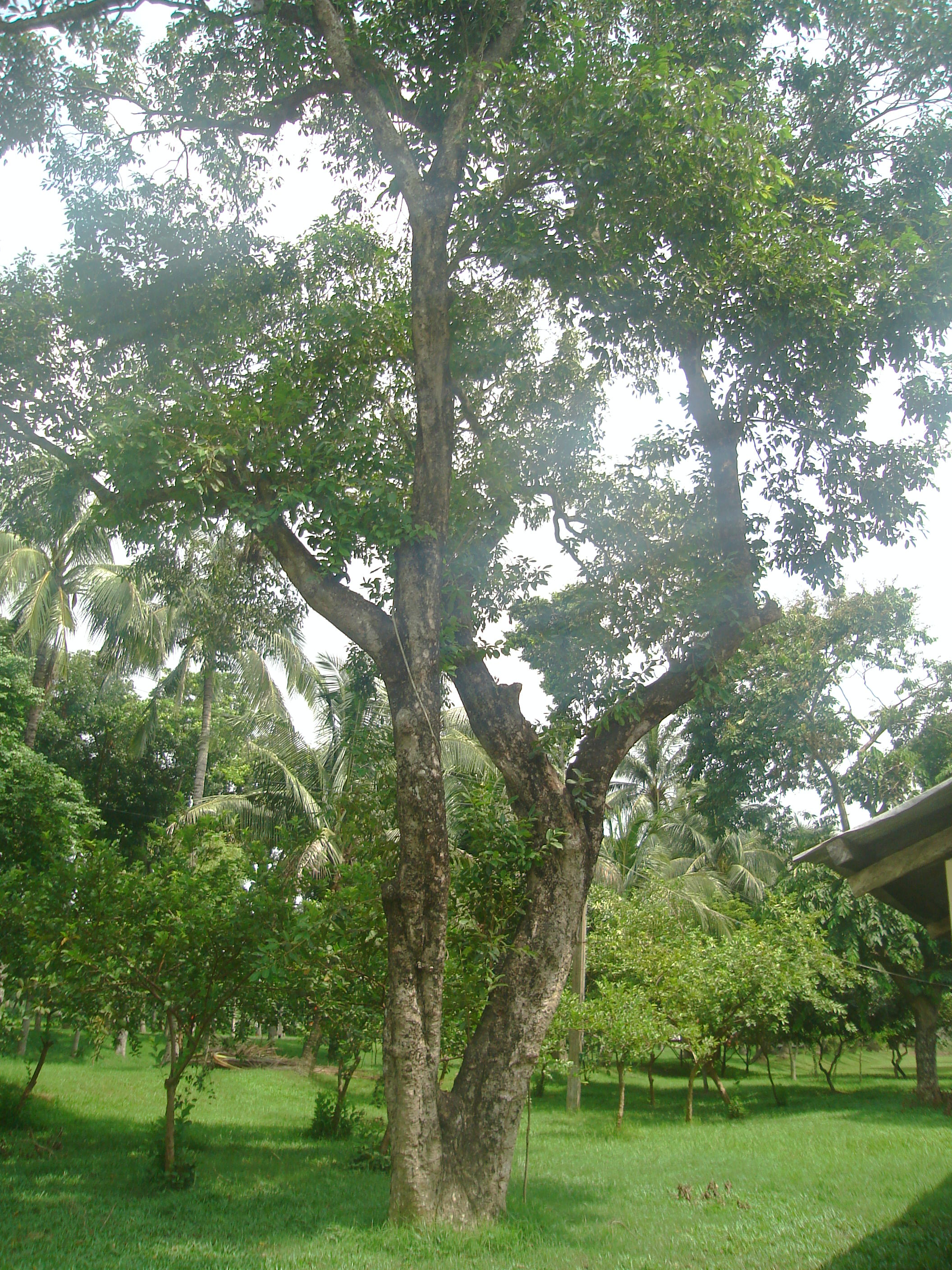 a jaam tree